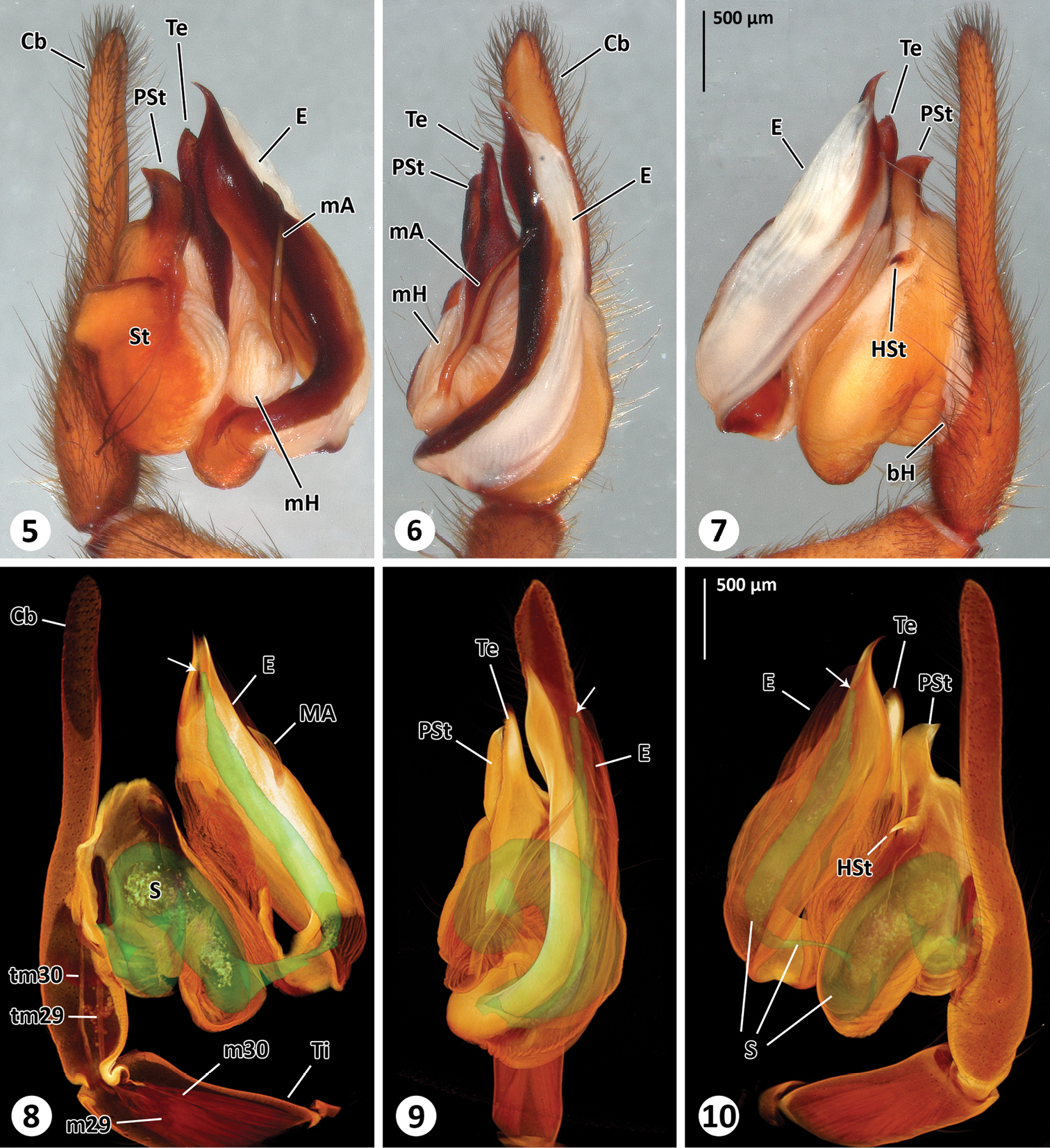 Left male palp of a male of Thaida chepu (Araneomorphae: Austrochilidae) from a wet lowland mixed forest at Lago Huillinco (Chiloé, Chile). 5–7 – extended focal plane images of male palp in prolateral (5), ventral (6) and retrolateral (7) view. 8–10 – surface model of the spermophor superimposed on the volume rendering of the male palp to illustrate dimension and shape of the spermophor. The views correspond to figs 5–7. The cymbium, subtegulum and tegulum are (partly) removed in fig. 8 to show tendons and muscles. The arrows point to the opening of the embolus. Abbreviations: Cb cymbium E embolus HSt hook of subtegulum m29 muscle 29 m30 muscle 30 mA median apophysis mH median hematodocha PSt process of subtegulum S spermophor St subtegulum Te tegulum tm29 tendon of muscle 29 tm30 tendon of muscle 30